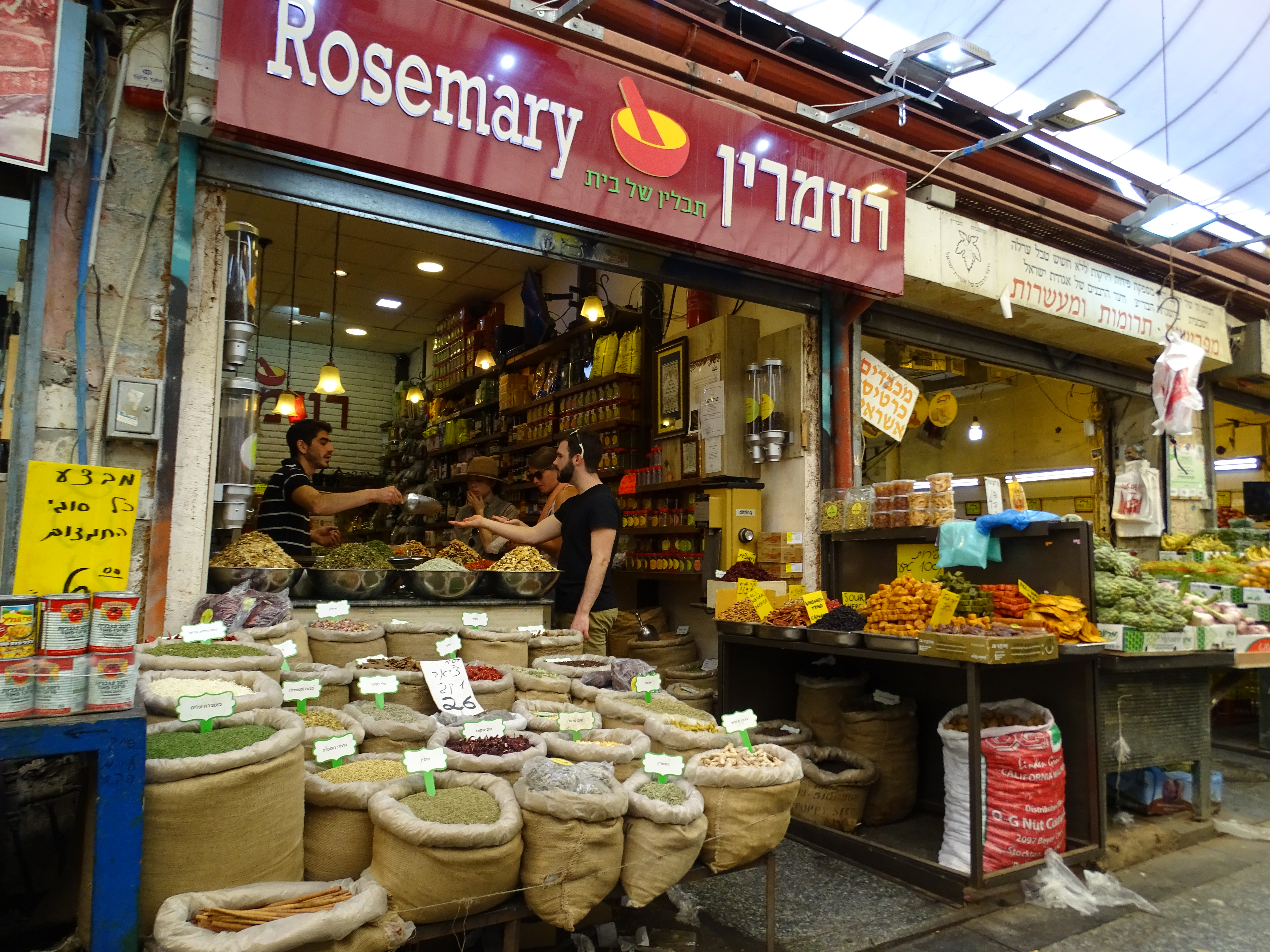 Jerusalem, Mahane Yehuda Market, 8 Eitz Chayim Street, Rosemary Spice Shop רוזמרין